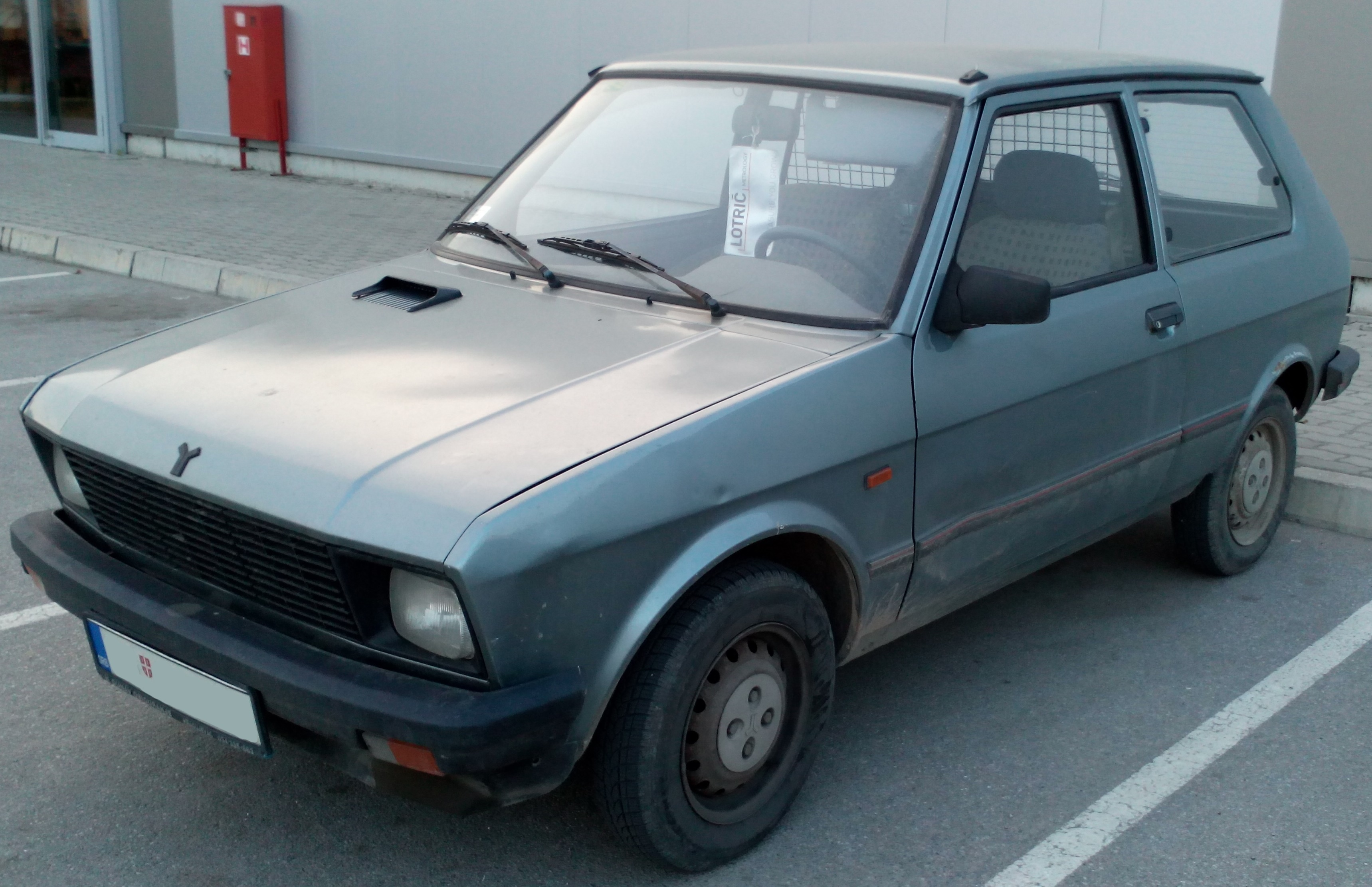 Yugo Elektra seen in Kragujevac